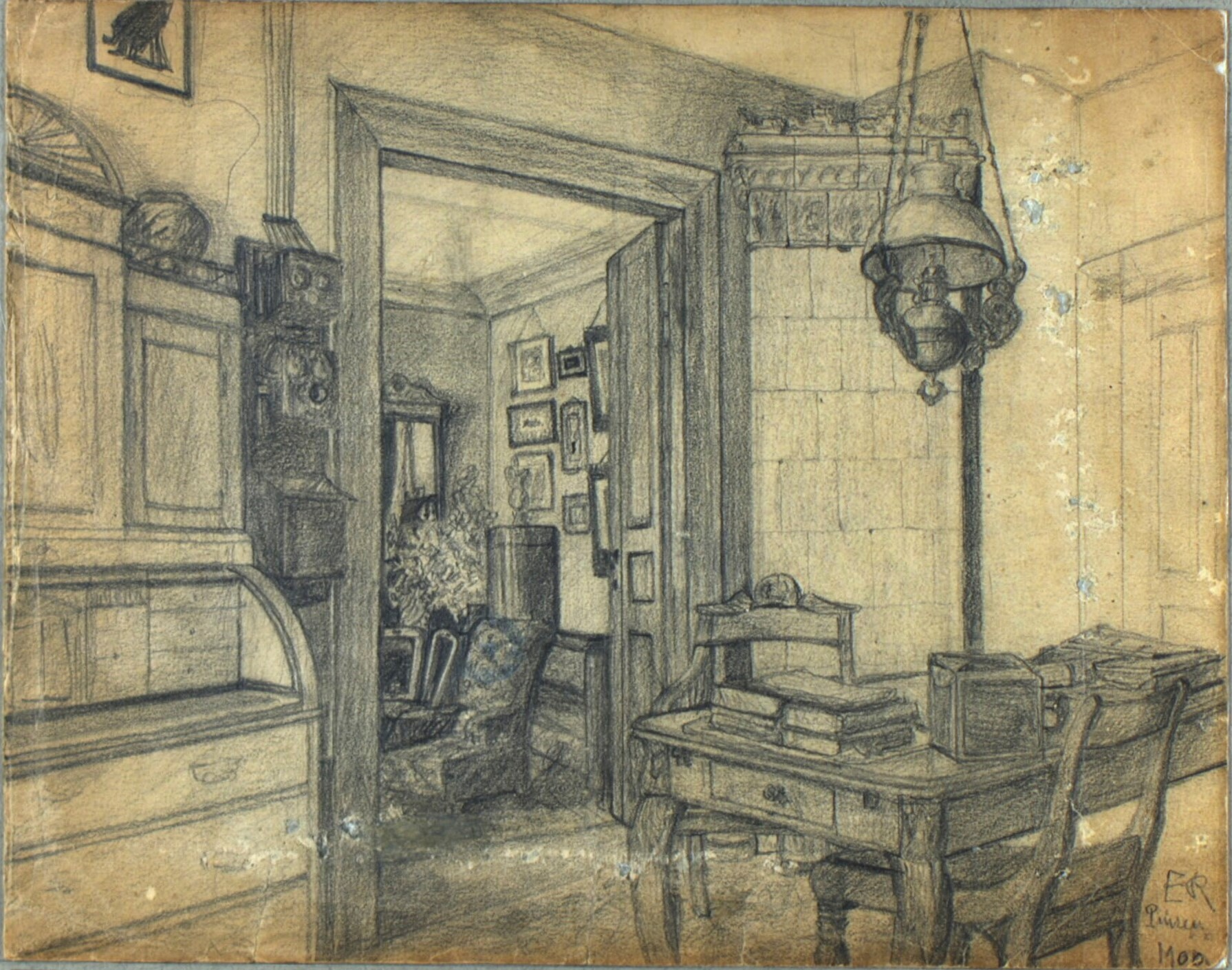 Interiør fra Valkendorfsgade nr. 36 som Kaspar Rostrups hjem med værelse og dagligstuen, Pinsen 1900